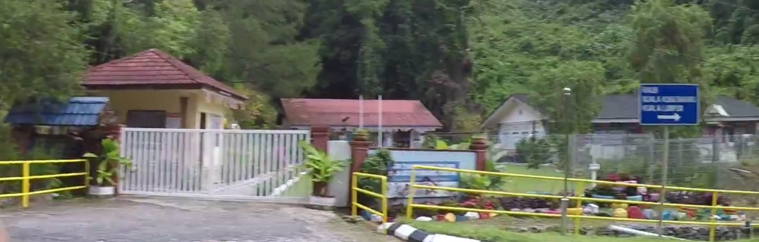 SJK (T) Bukit Fraser taken in July 2017